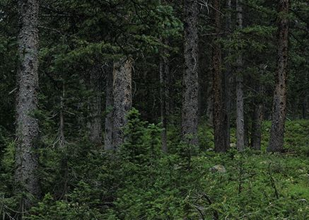 Subalpine flora example from the southern rockies in central Colorado, near Monarch Pass. This photo is a crop of a much larger photo of my own making. I hereby release this image into the public domain.